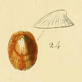 Pilidium fulvum Müller, accepted as Iothia fulva[1]. From Illustrated Index of British Shells, Plate X., Fig 24.